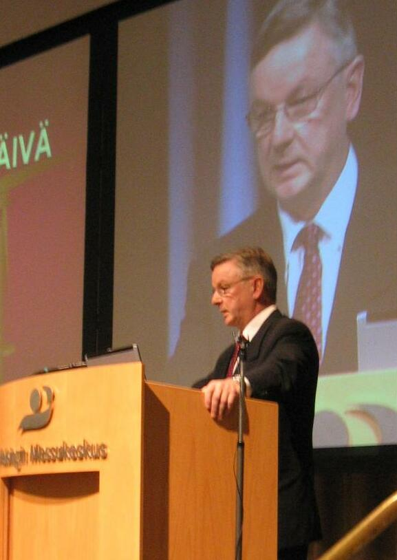 Matti Pellonpää, a Finnish judge